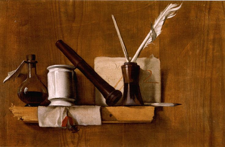 A trompe l'oeil with plumes in an ink bottle, a letter, a seal stamp, a delft pot and a bottle, arranged upon a wooden shelf.